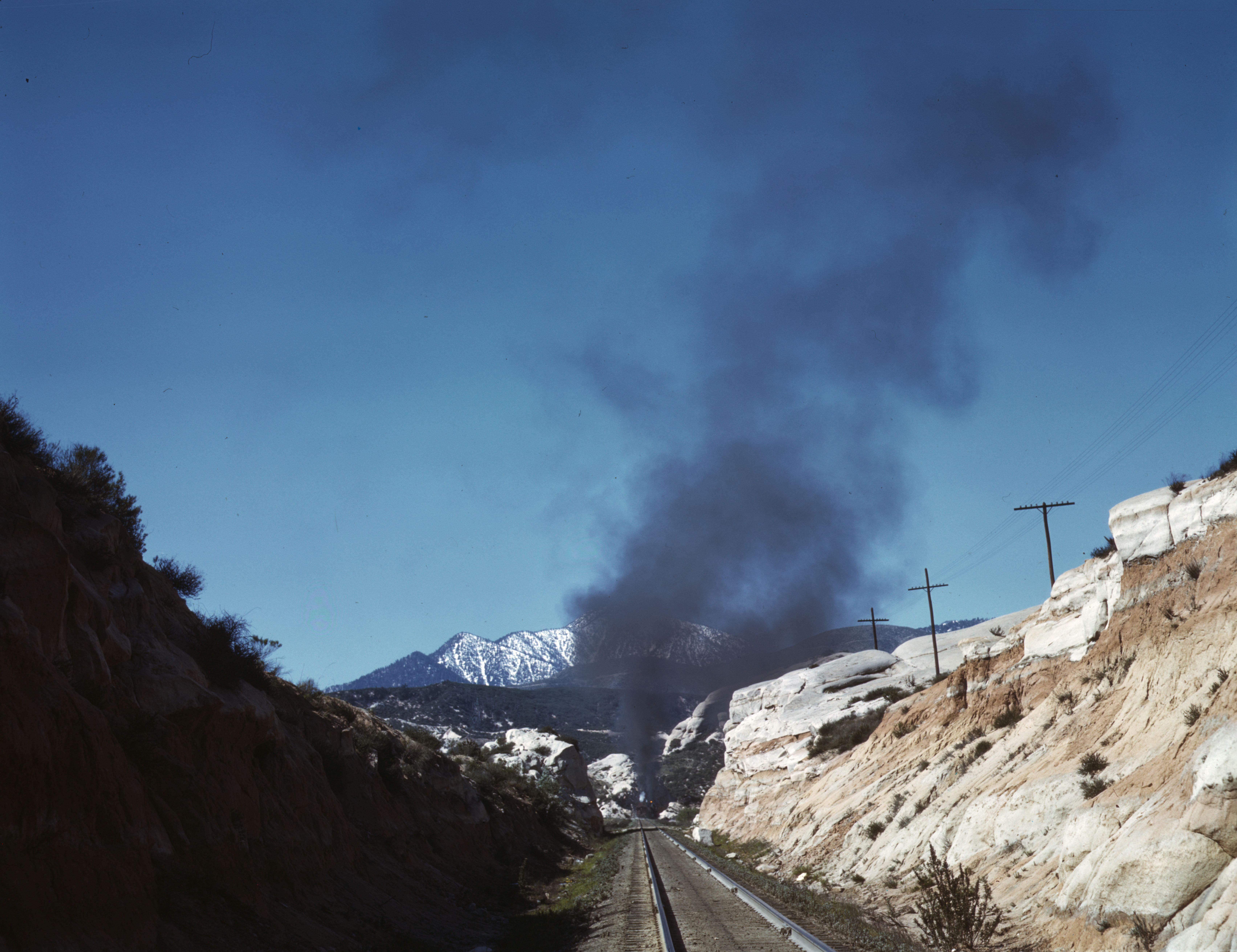 A section of Atchison, Topeka and Santa Fe Railway track on Cajon Pass with a Santa Fe train in the distance in March 1943. Photo by Jack Delano, Farm Security Administration - Office of War Information (FSA-OWI).